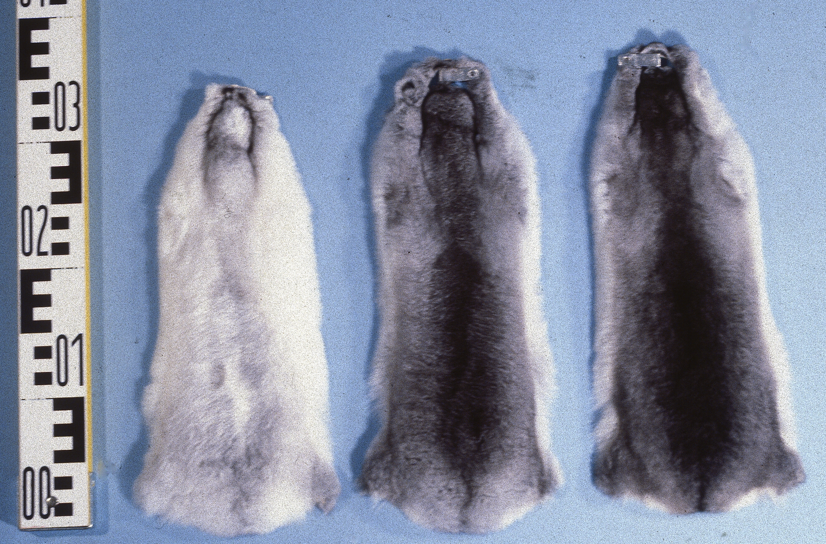 Chinchilla fur skin (Chinchilla lanigera), breeding. Fur skin collection, Bundes-Pelzfachschule, Frankfurt/Main, Germany